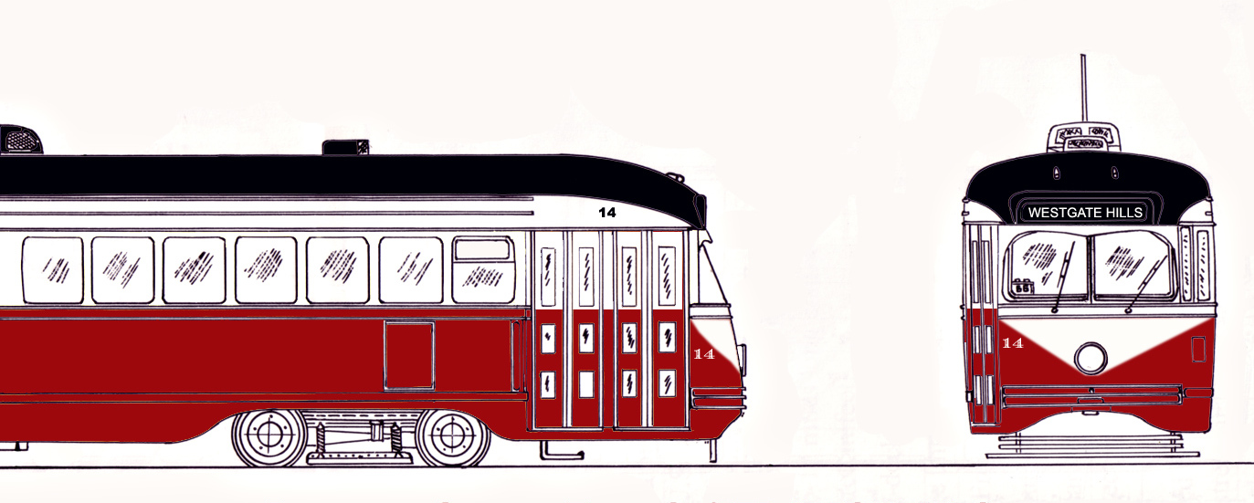 «Philadelphia Suburban Trans. Co. : color scheme» (original caption)